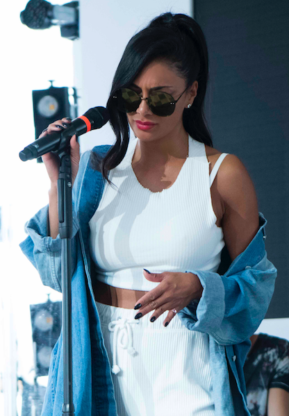 Photo of Nicole Scherzinger at a 2018 Moscow Soundcheck. Photo by Frederick Monceau.